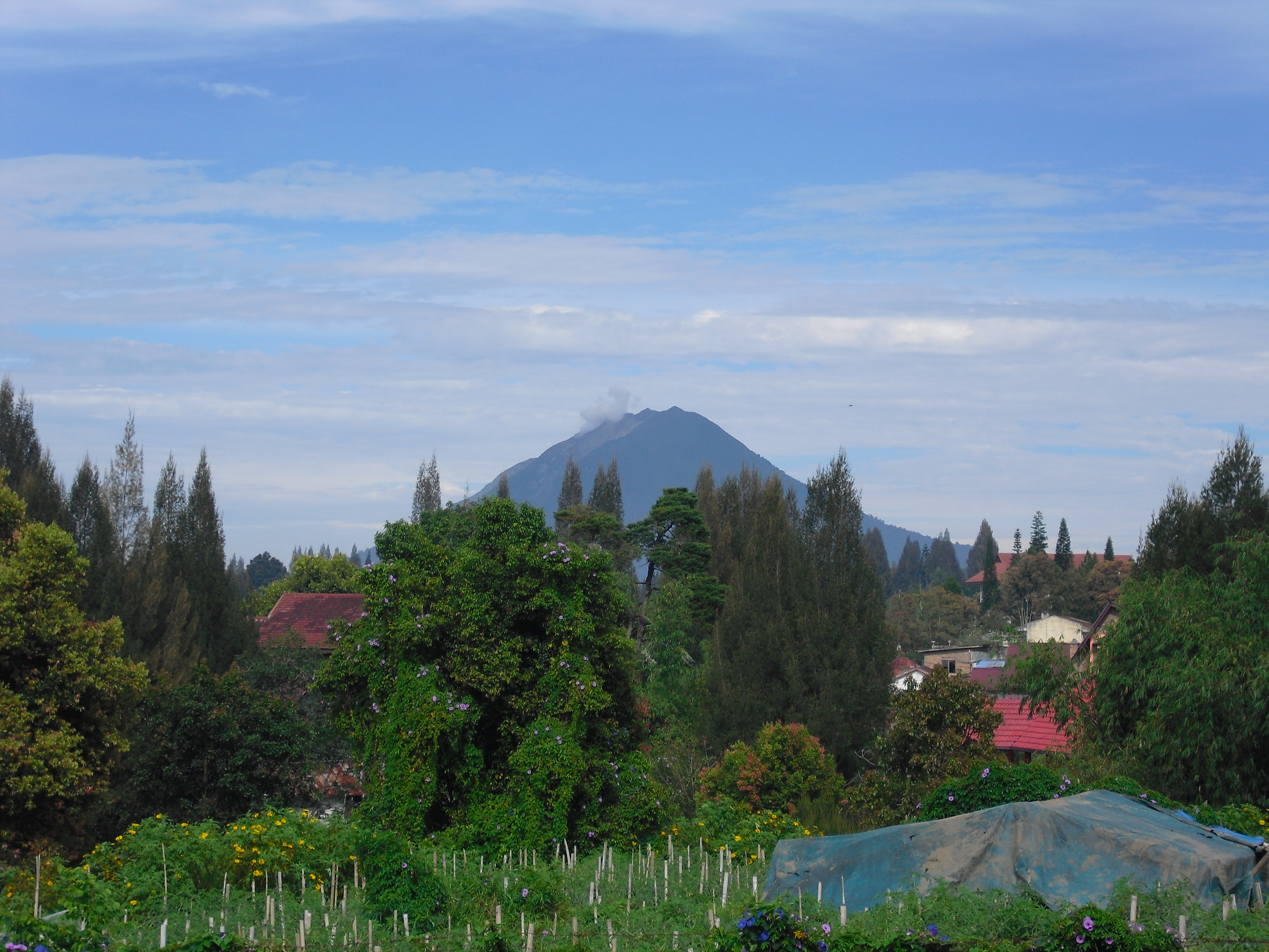 Mount SinabungBahasa Indonesia: Mount Sinabung